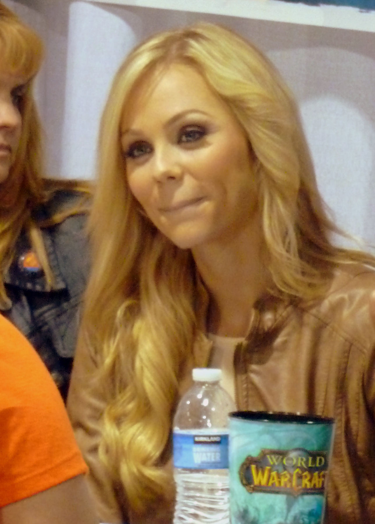 Laura Vandervoort 01 Guests at Wizard World Chicago 2012.